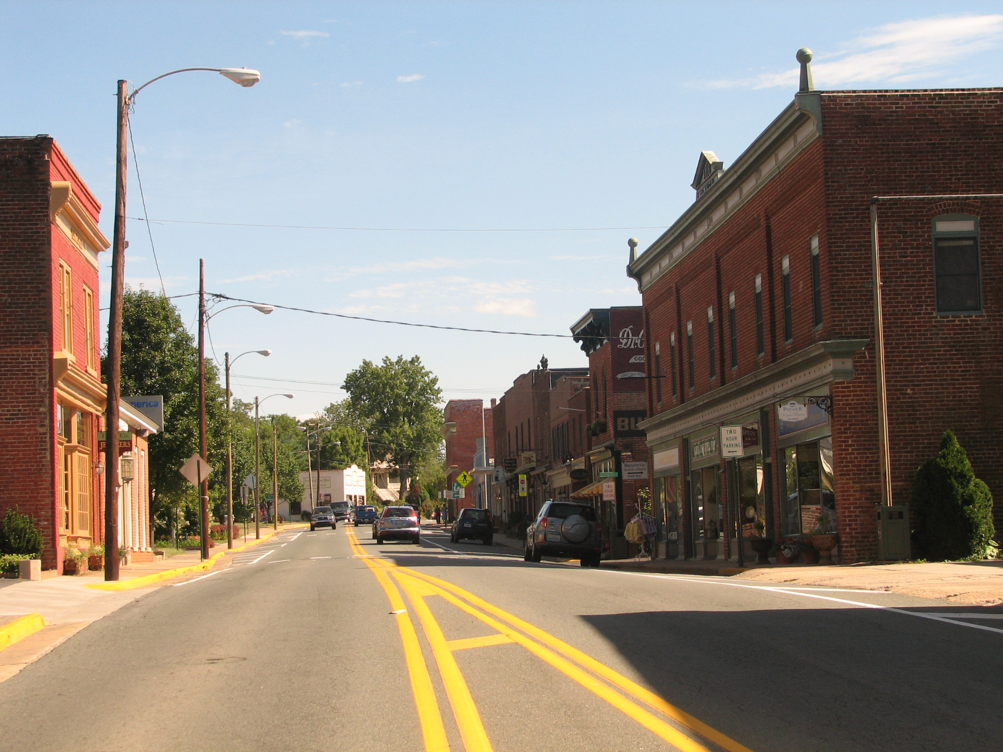 Gordonsville, VA's downtown